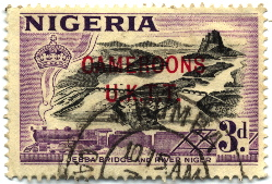 Scan by User:Stan Shebs of a Cameroons 3d stamp used at Kumba, 250px across